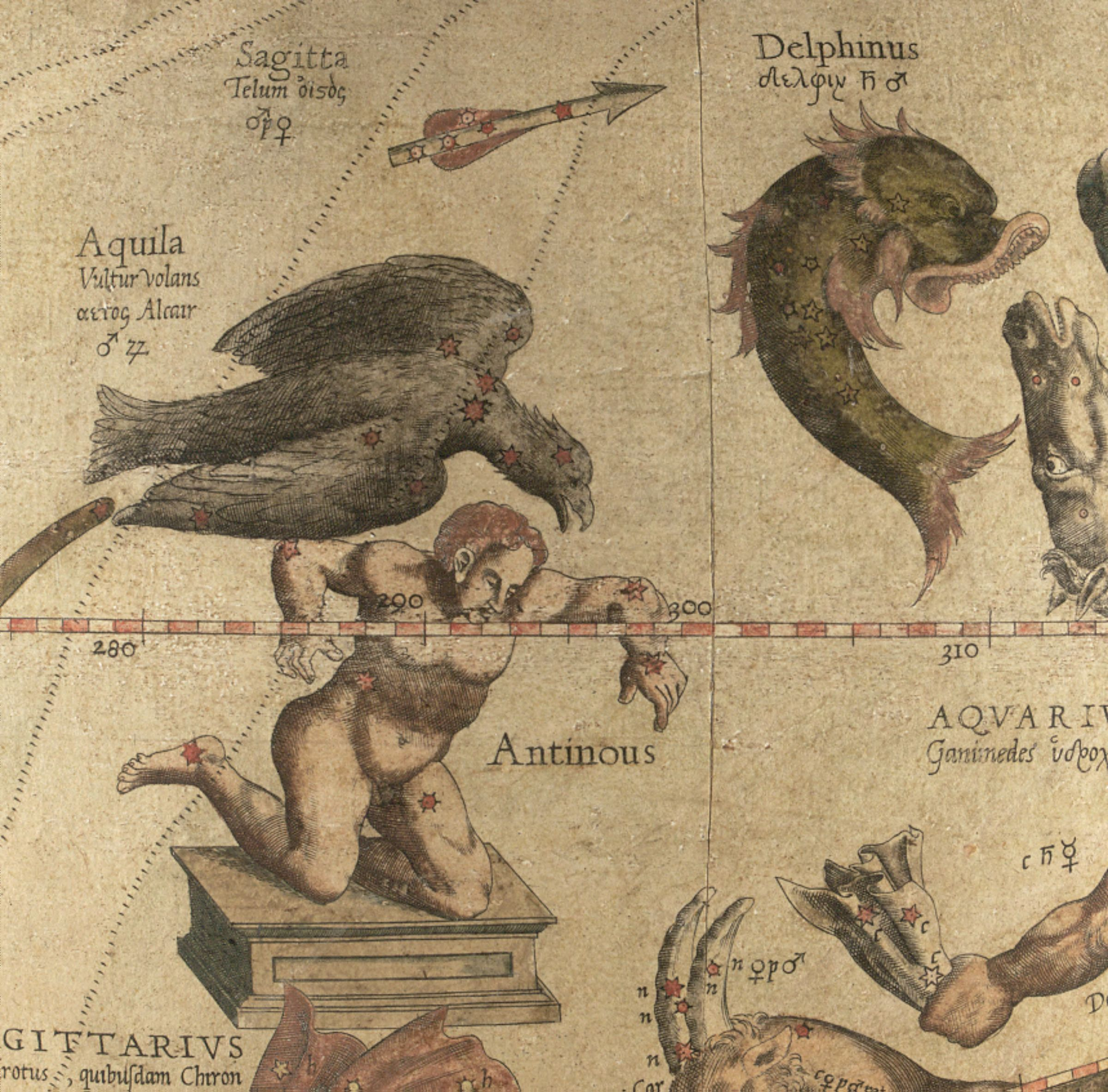 Antinous, Delphinus, Sagitta et_Aquila constellations from the Mercator celestial globe.